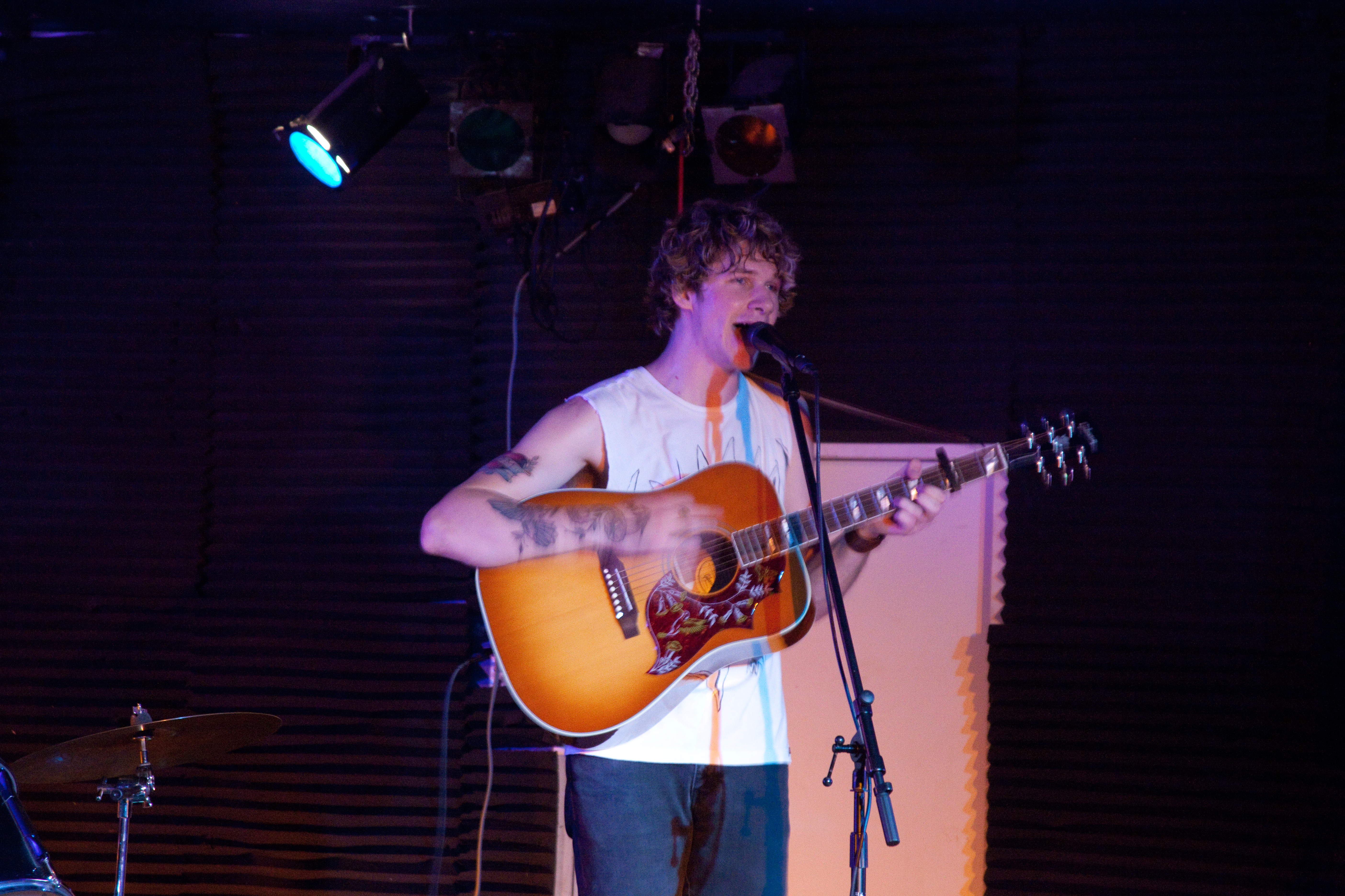 Guitarist, lead vocalist, and composer for Hollow Shoulder.